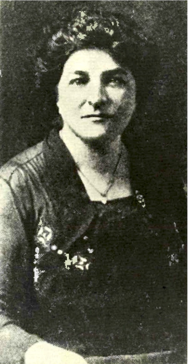 Opha May Johnson (2 Feb 1900 – Jan 1976) was the first woman to enlist in the United States Marine Corps. This is a photo of her shortly after enlisting.